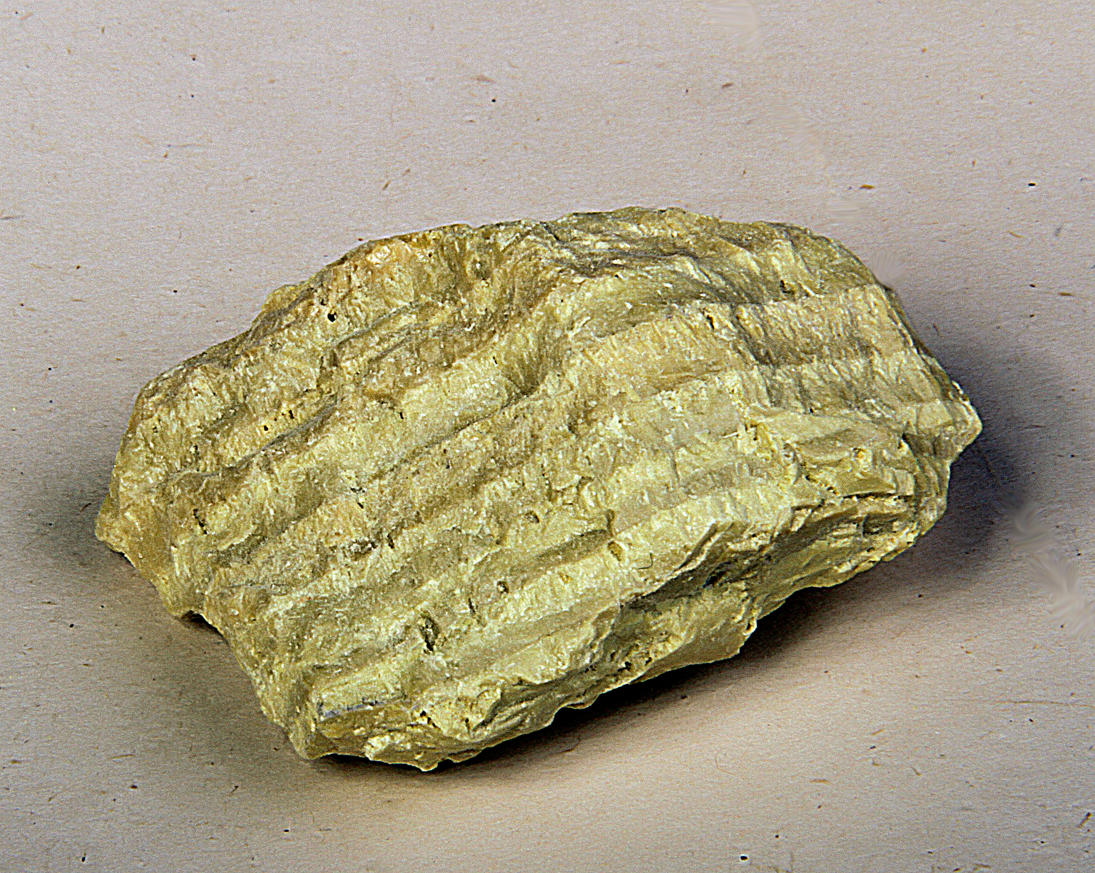 khanegiran Mineral Sulfur, Iran.